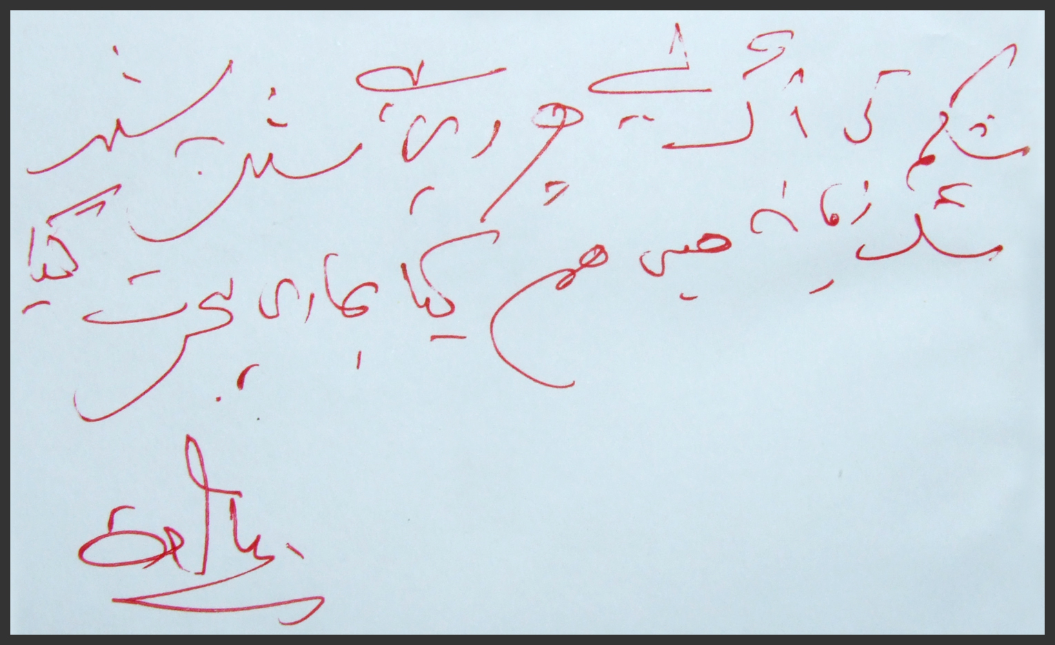 A famous shair of Iftikhar Arif in his own handwritting.